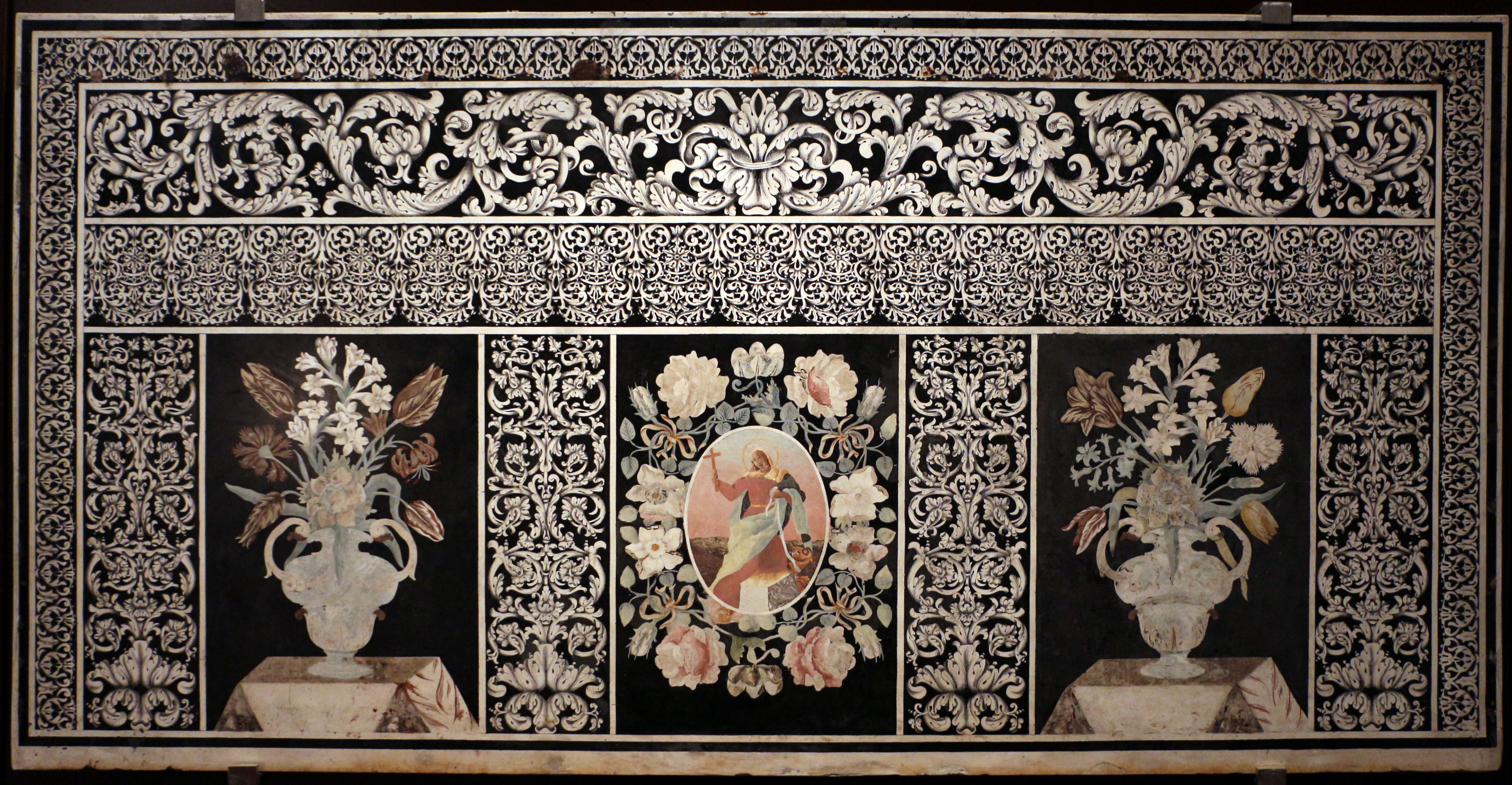 Collections of the Museo Civico (Carpi)